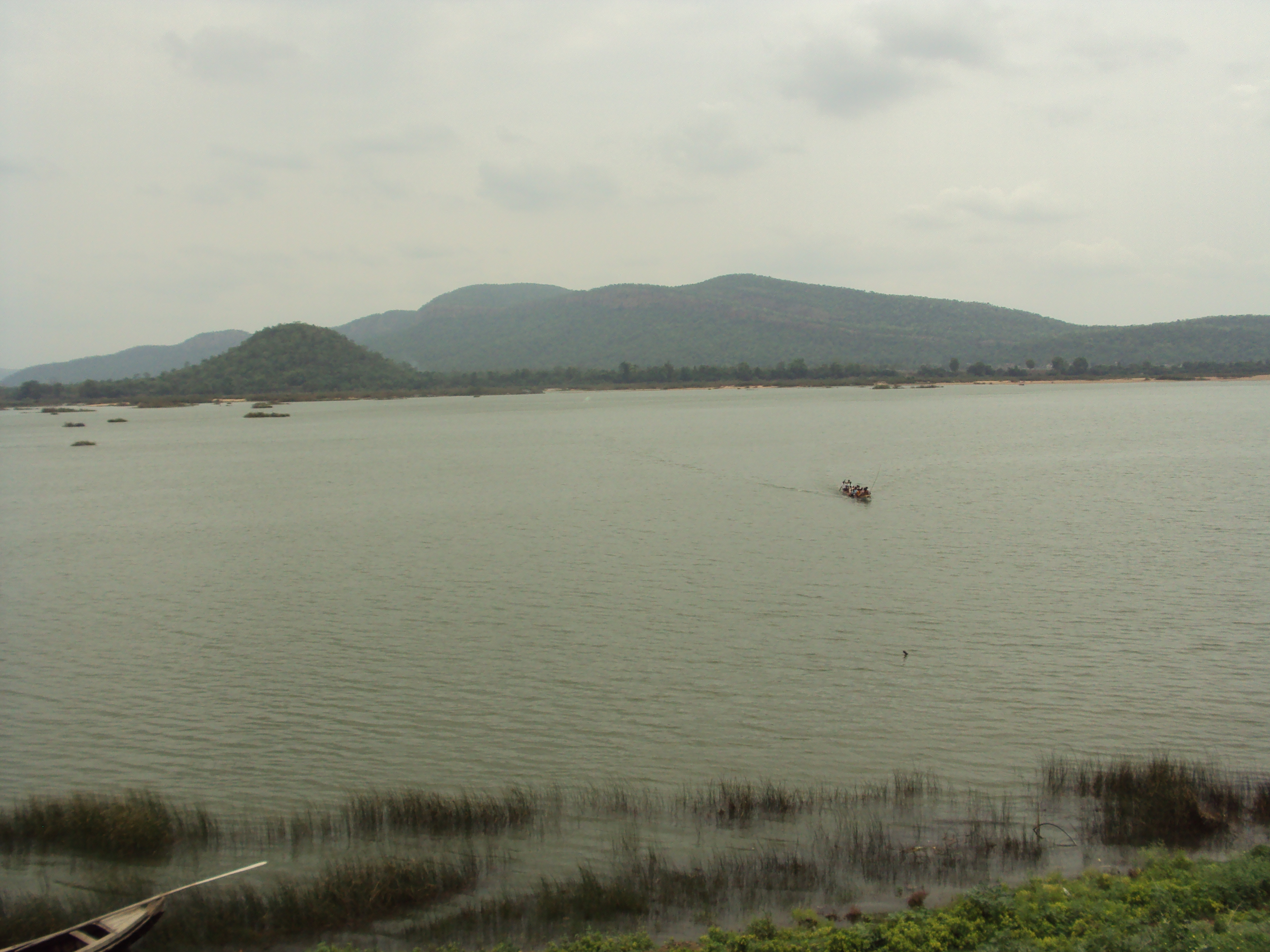 View of River Godavari at Parnashala